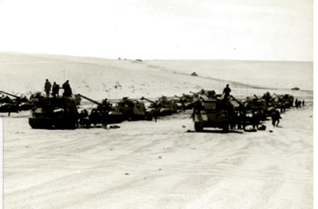 All battalion units have M107 cannons